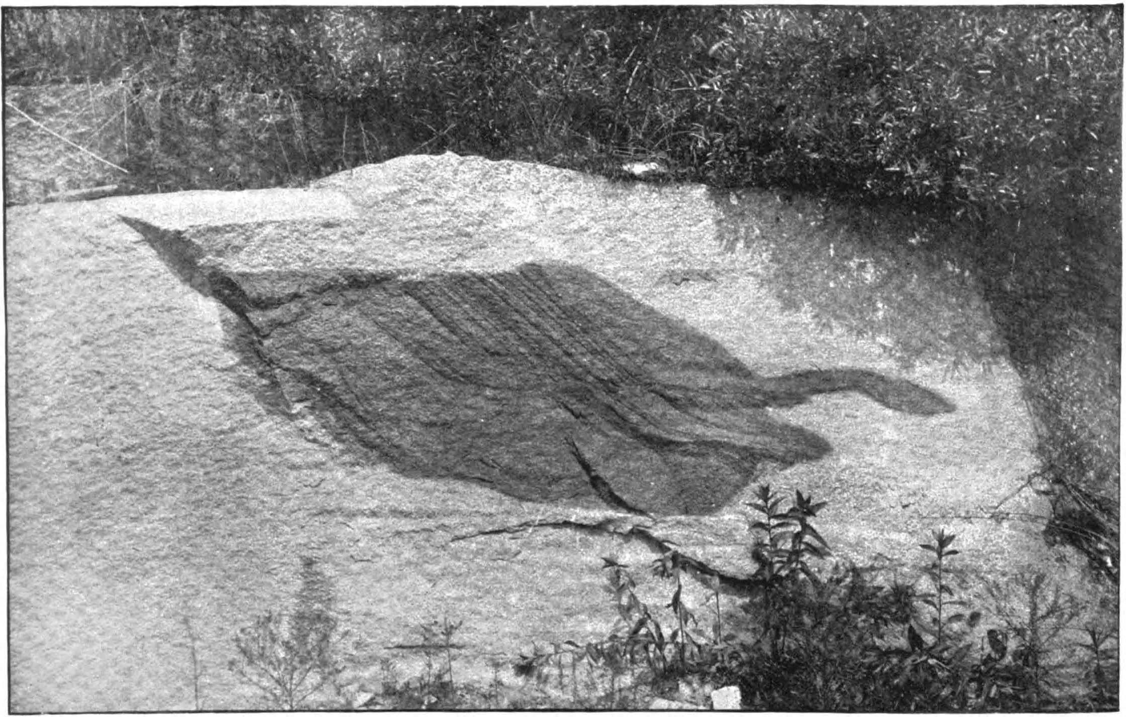 Plate XLI from The Origin and Relations of Central Maryland Granites (Extract from the 15th Annual Report of the U. S. Geologic Survey, 1893-94) by Charles Rollin Keyes, 1895. Caption is "Gneiss Inclusion in Granite; Waltersville Granite Quarry, near Woodstock, Maryland." Today the gneiss is mapped as the Baltimore Gneiss and the granite is the Woodstock Quartz Monzonite.